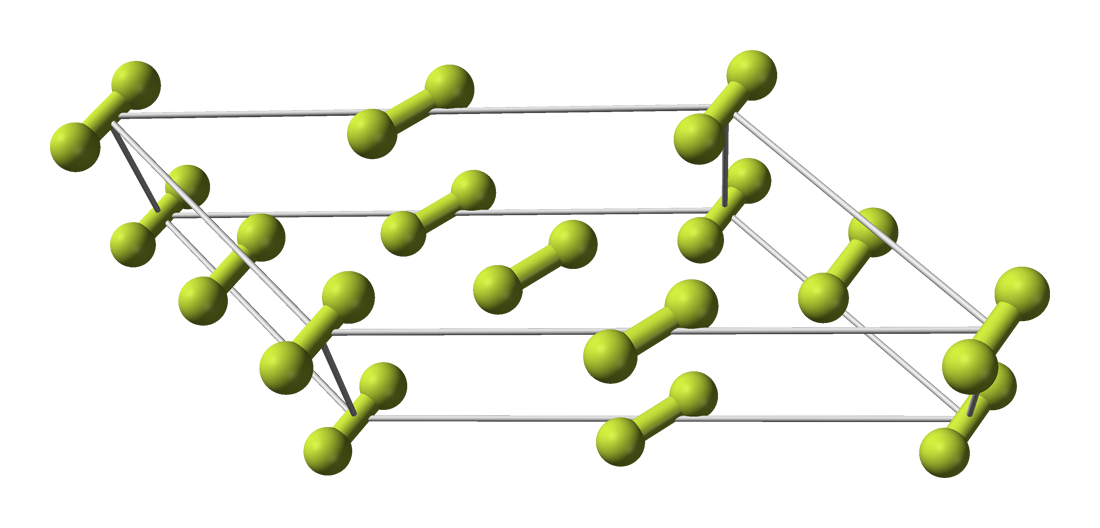 Ball-and-stick model of the unit cell of α-fluorine. Crystal structure data from J. Chem. Phys. 49, 1902 (1968) Image generated in Accelrys DS Visualizer.